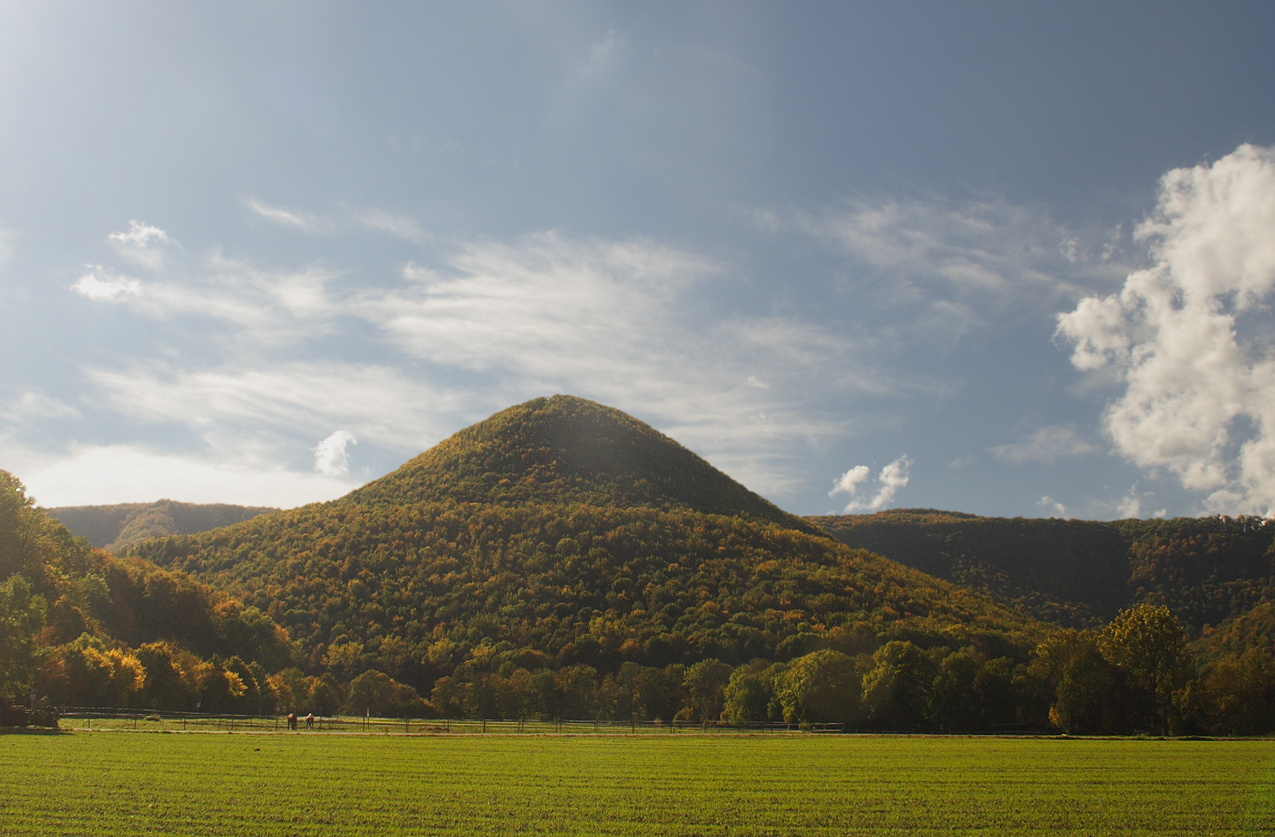 Kind of table mountain, eroded to be almost a solitary next to the cuesta of the Swabian Alb. To the north of the mountain and across the valley there is a volcanic pipe, which could only be detected by geomagnetic exploration. The volcano of the typ "Schwäbischer Vulkan" (phreatomagmatic eruption) was active only in Upper Miocene. Prehistoric settlements have been verified.